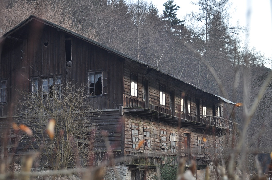 Ojcow, Southern Poland